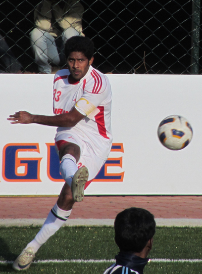 Manjit Singh (born 1986) is an Indian football player. [1] He is currently playing for Air India FC in the I-League in India as a Striker.